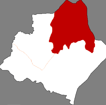 Location of Huinong district in Shizuishan city, China